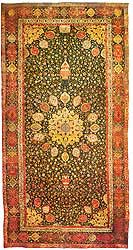 Azerbaijanian Sheikh Safi""carpet from Ardelil (South Azerbaian)